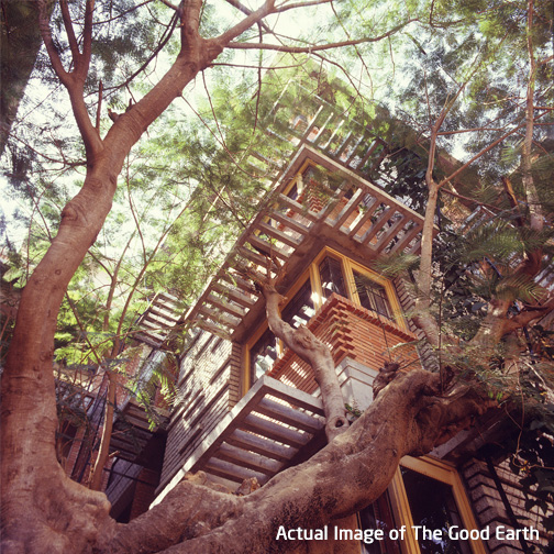 The Good Earth, Ulsoor, Bangalore Kamal Sagar